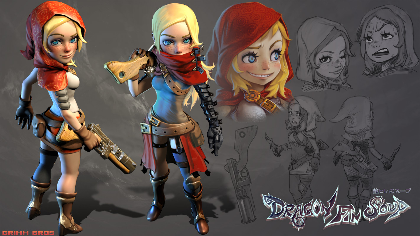 Dragon Fin Soup Art